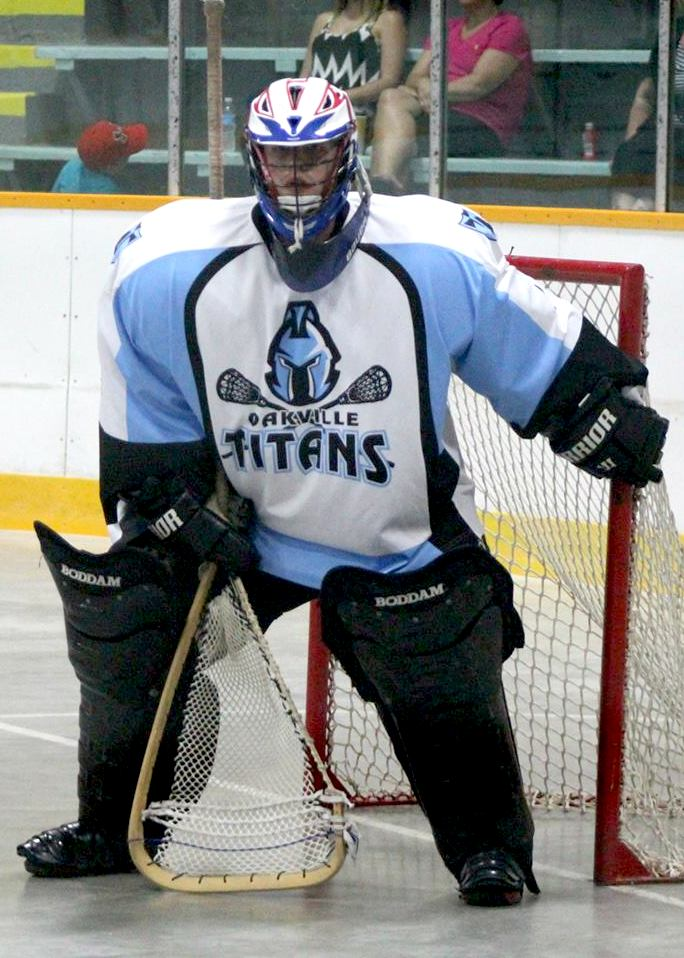 This photo was taken by Devan Mighton during the 2015 OSBLL season.